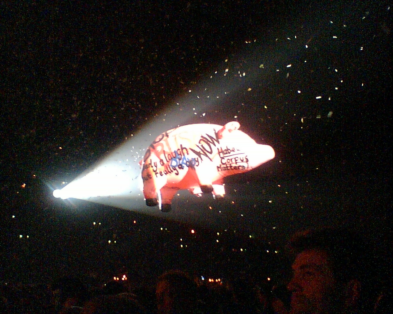 Photo taken at Roger Waters' concert in the Gelredome, Arnhem